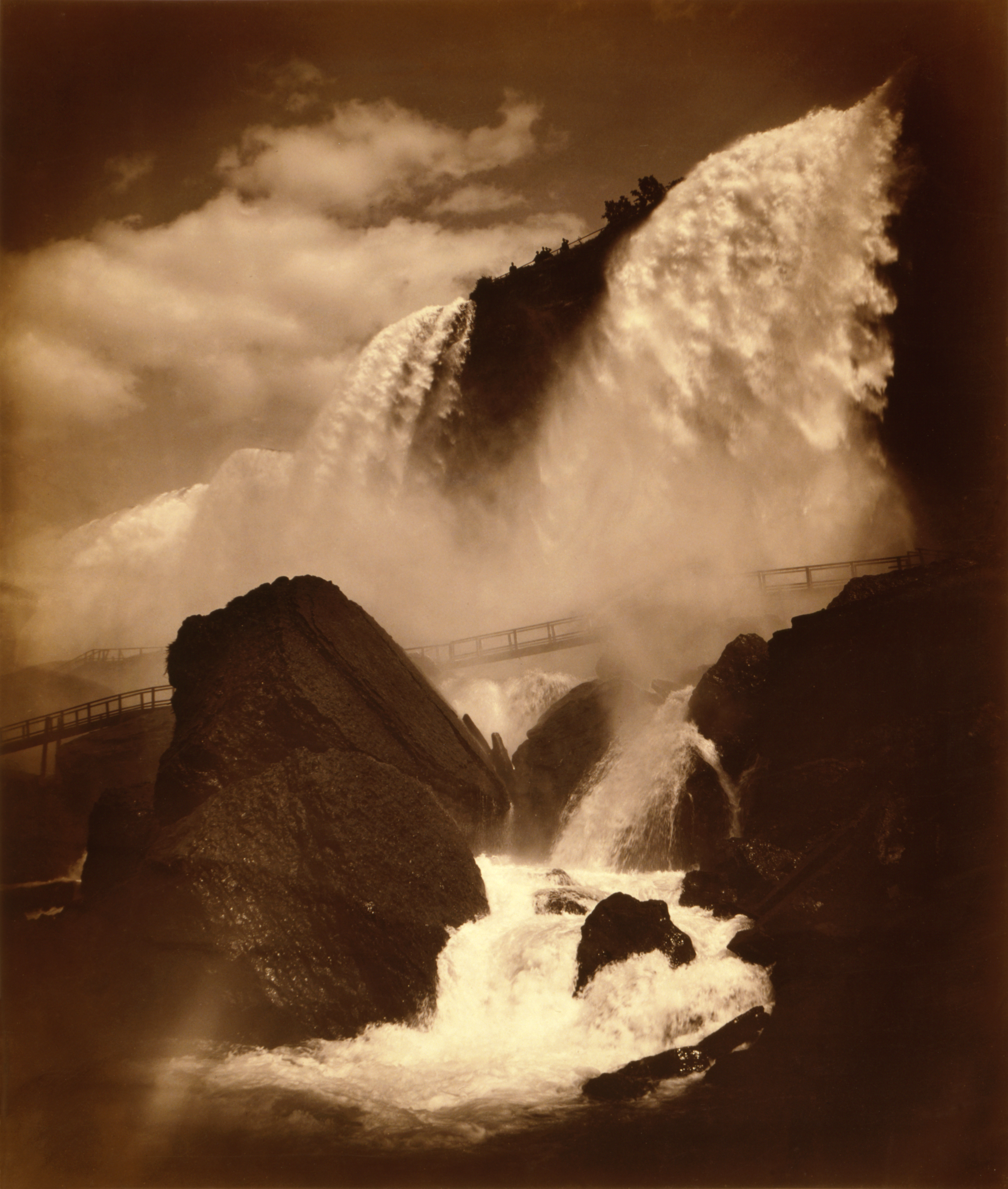 Cave of the Winds, Niagara Falls, New York. 1 photographic print : albumen.